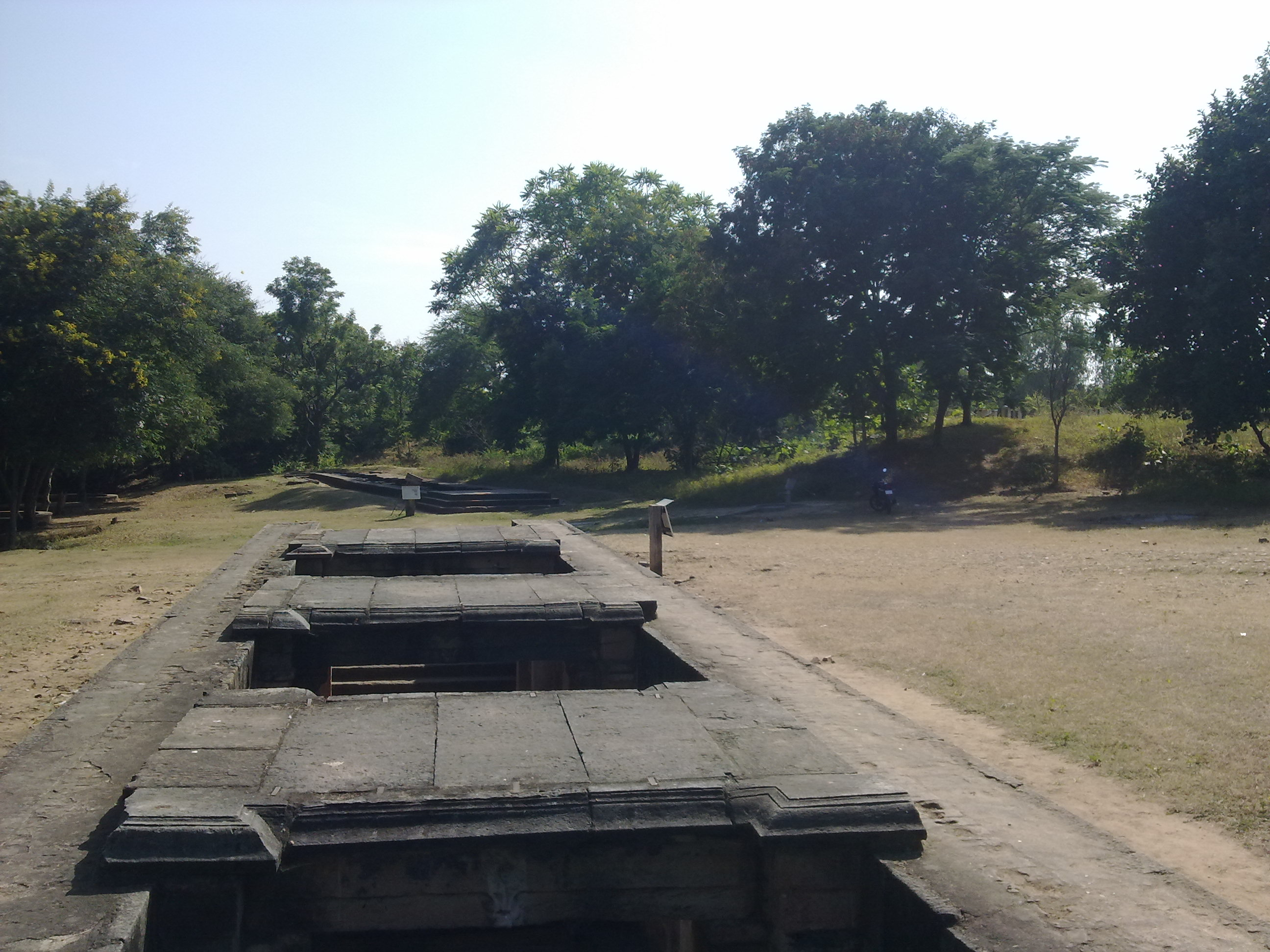 Sasu Ni Vav